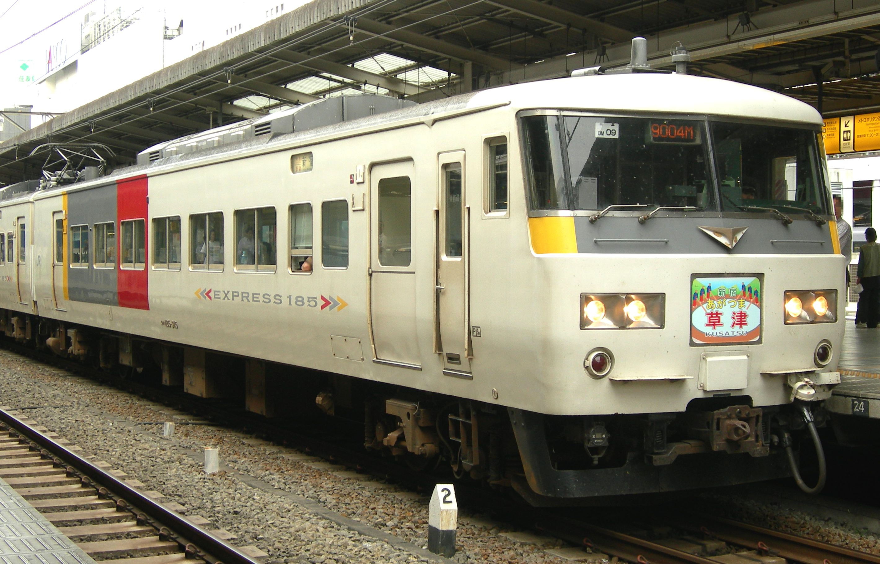 JR East 185-200 series EMU at Ikebukuro Station